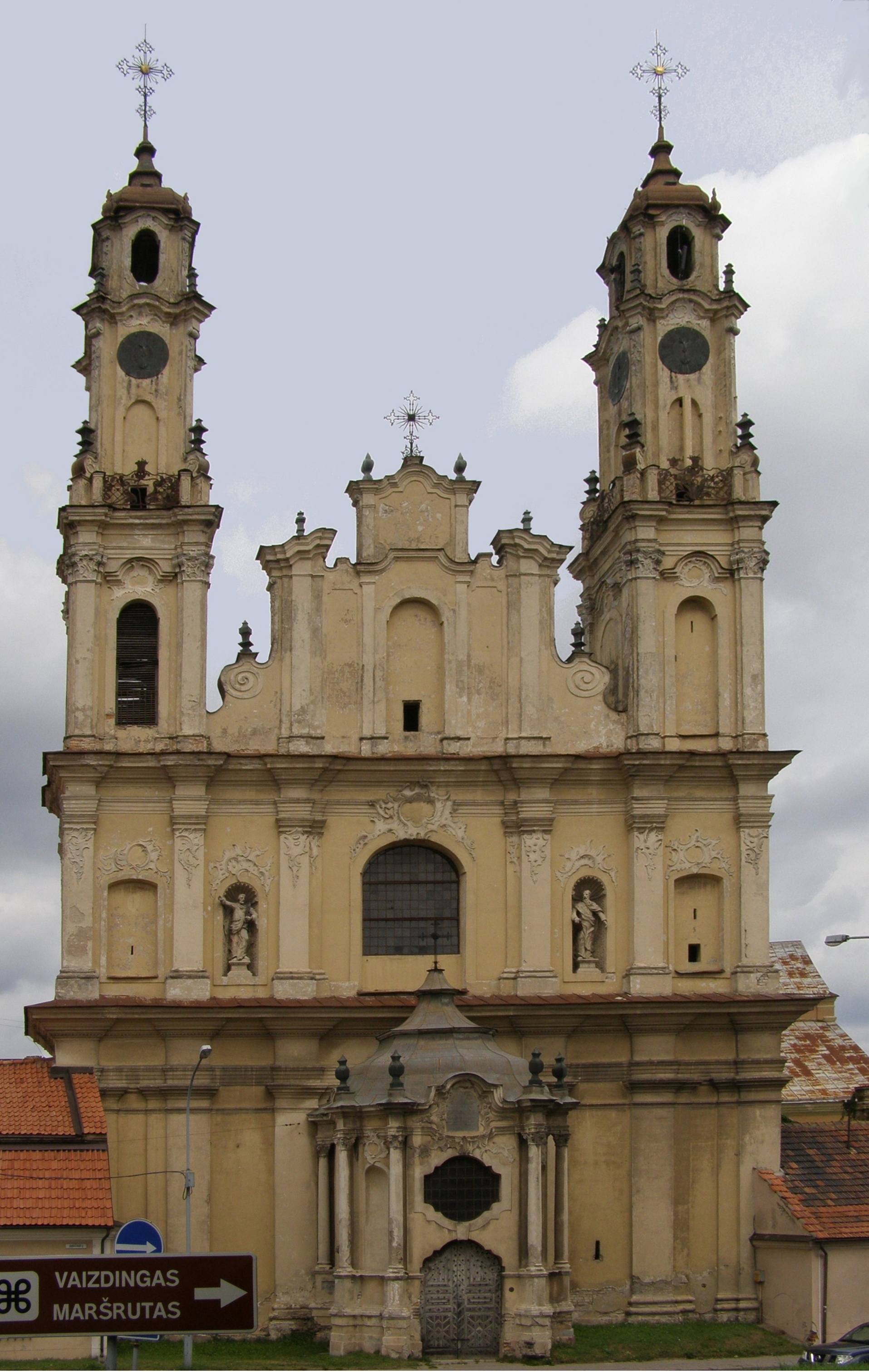 Church of Ascension in Vilnius